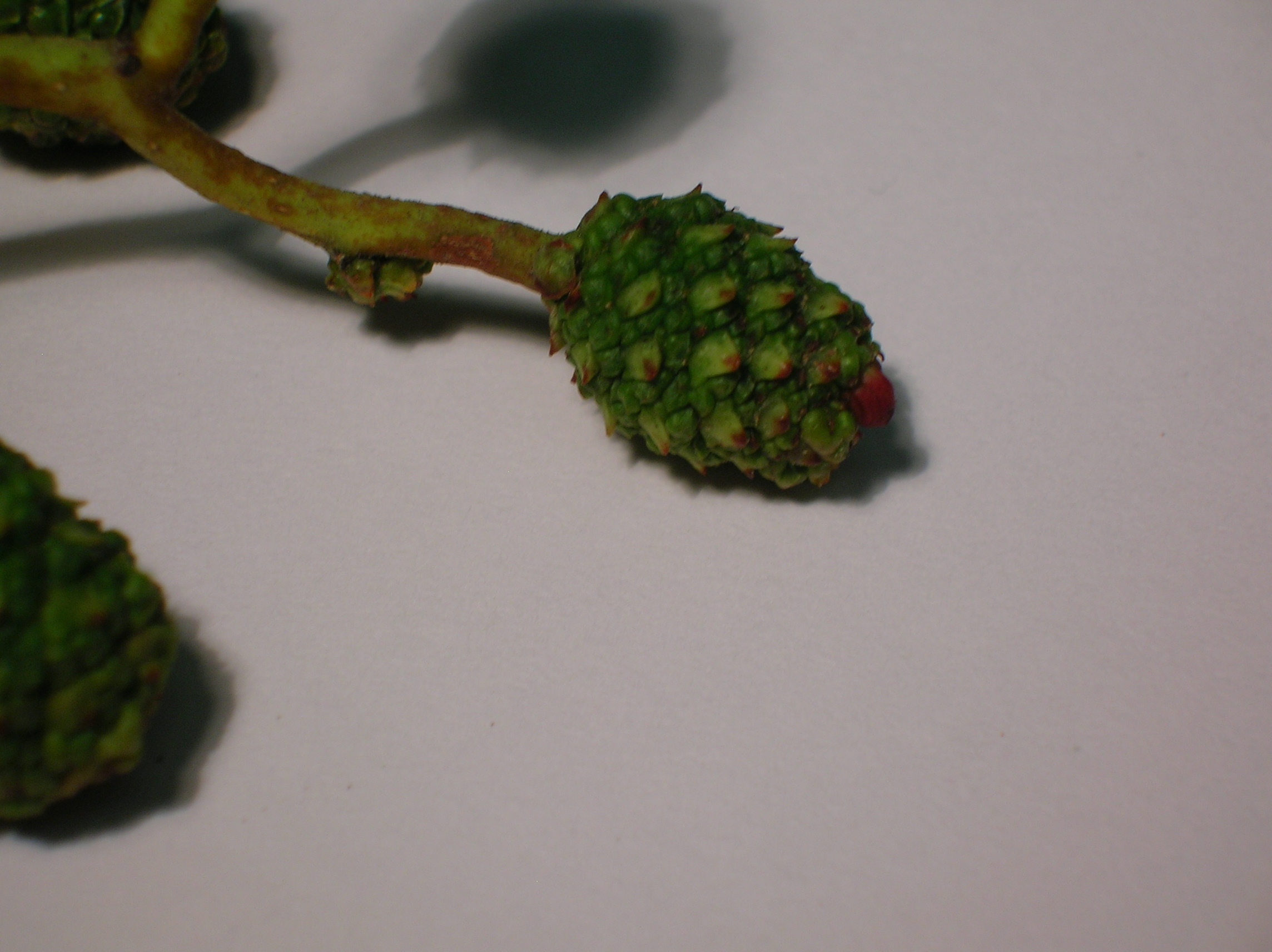 Taphrina alni, a fungal Tongue Gall. Eglinton Country Park, Kilwinning, Scotland. Languet developing.